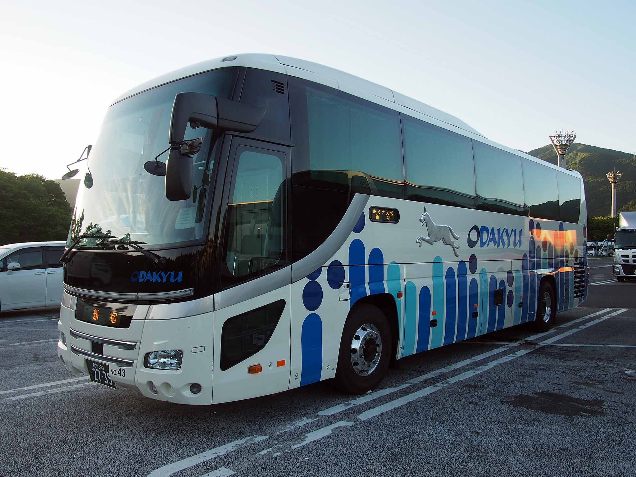 Fleet of Odakyu City Bus, for overnight intercity express bus. Model: Hino Selega SHD QPG-RU1ESBA Licese plate: TKS200KA2739 Place: Tomei Expressway Ashigara Service Area, Gotenba City, Shizuoka Japan